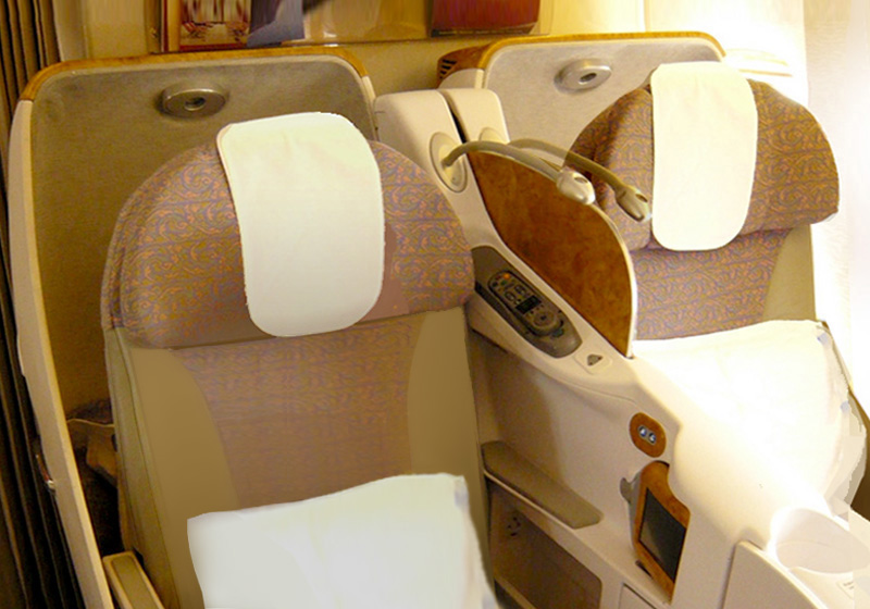 EK J-Class